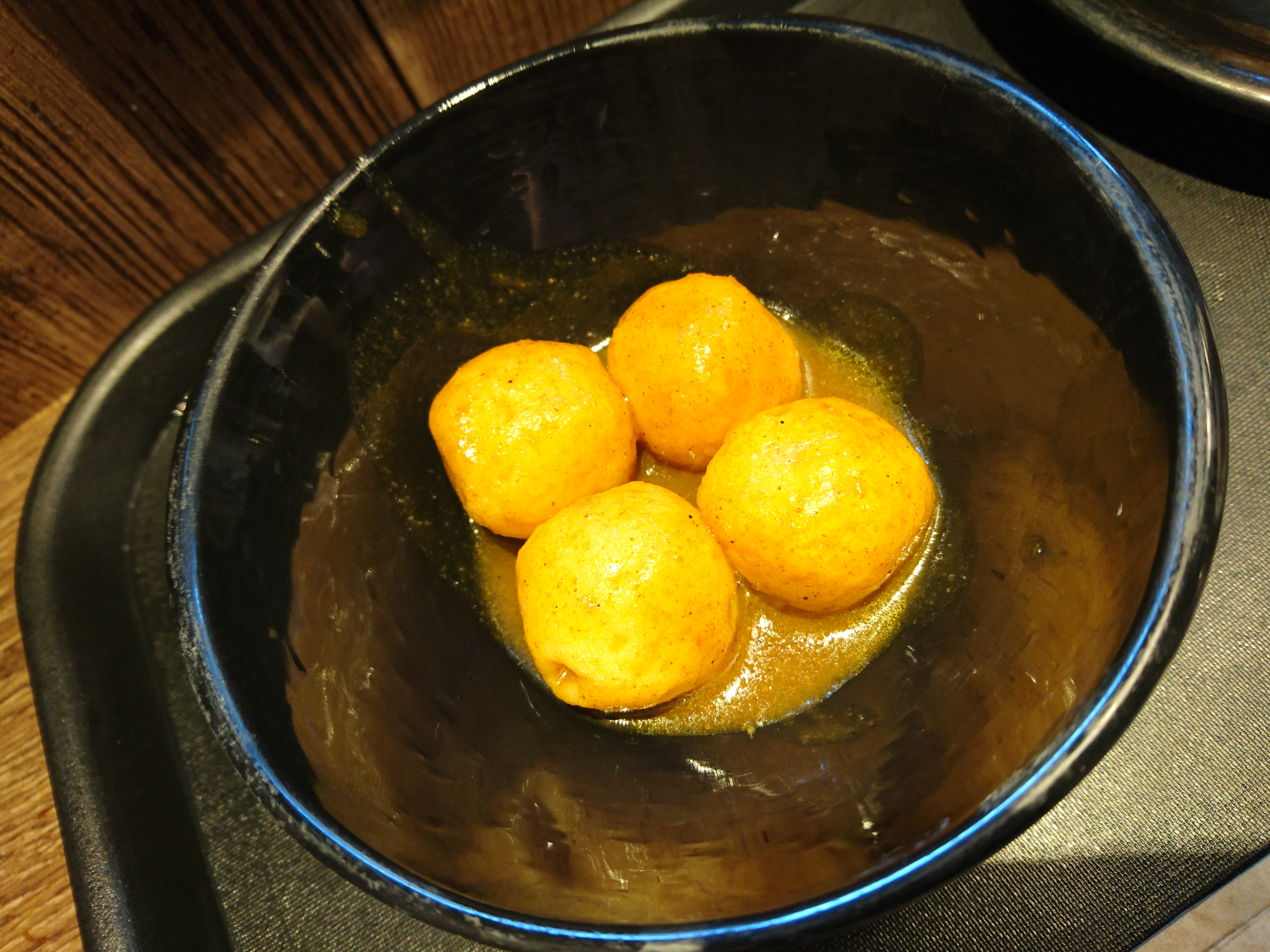 Curry Fish Balls